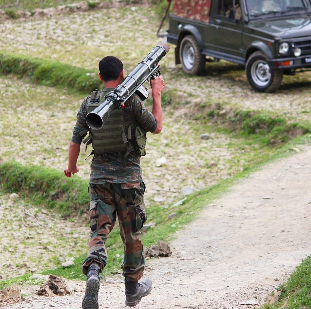 Indian Army soldier goes towards encounter site in Kashmir with a Carl Gustav